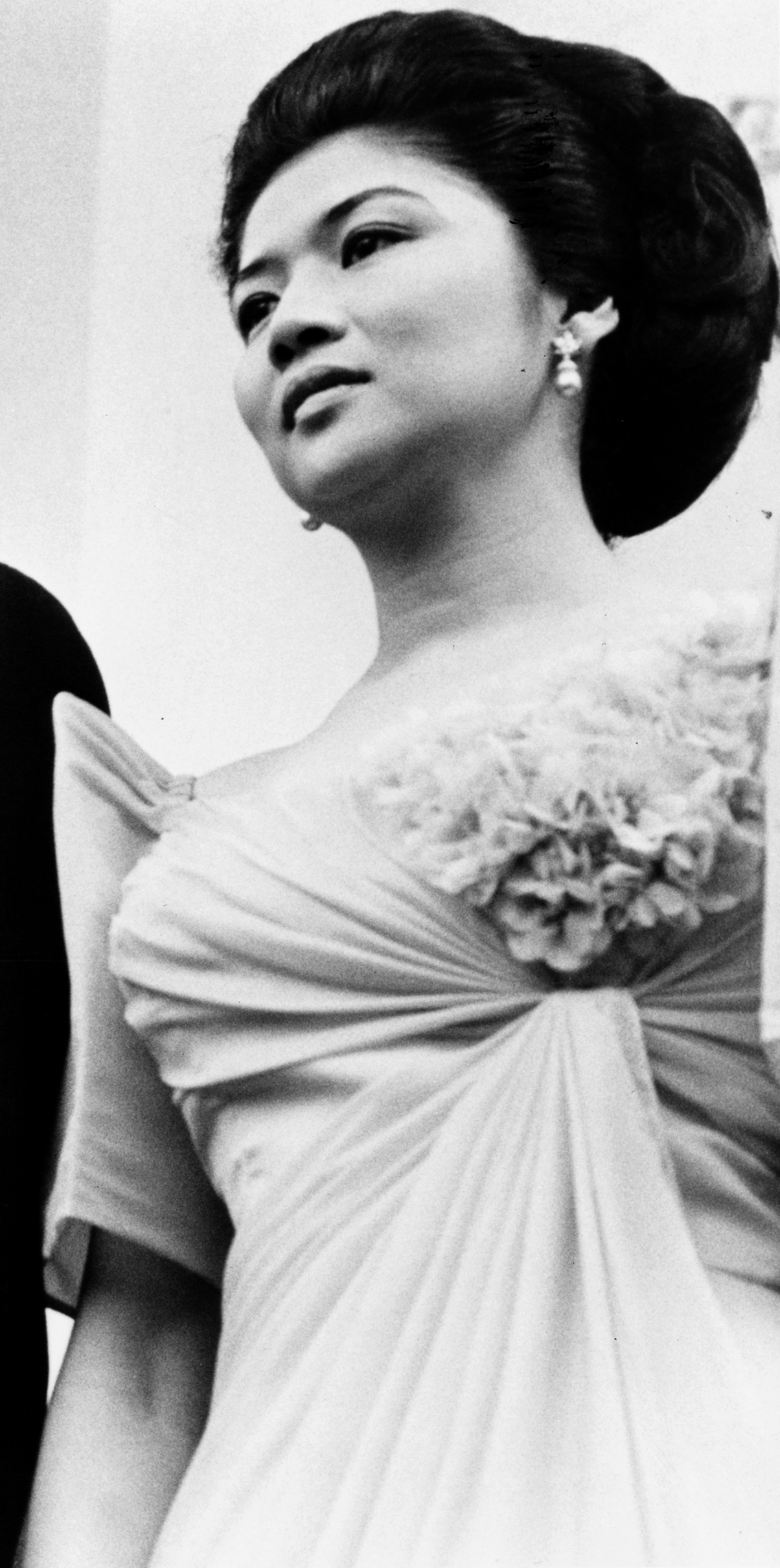 Imelda Marcos during a state visit at the White House in 1966